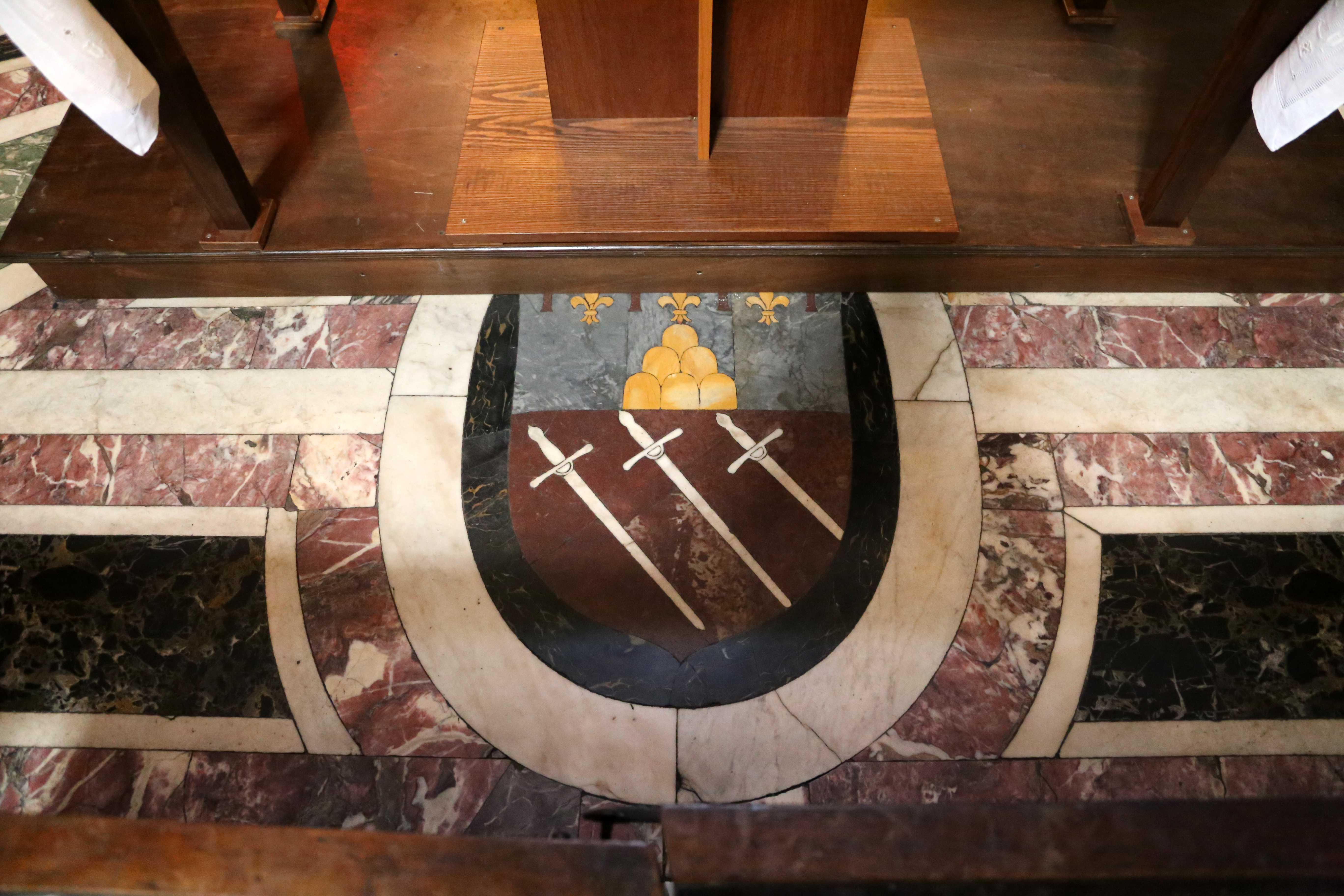 Santa Trinita (Florence) - Cappella Usimbardi